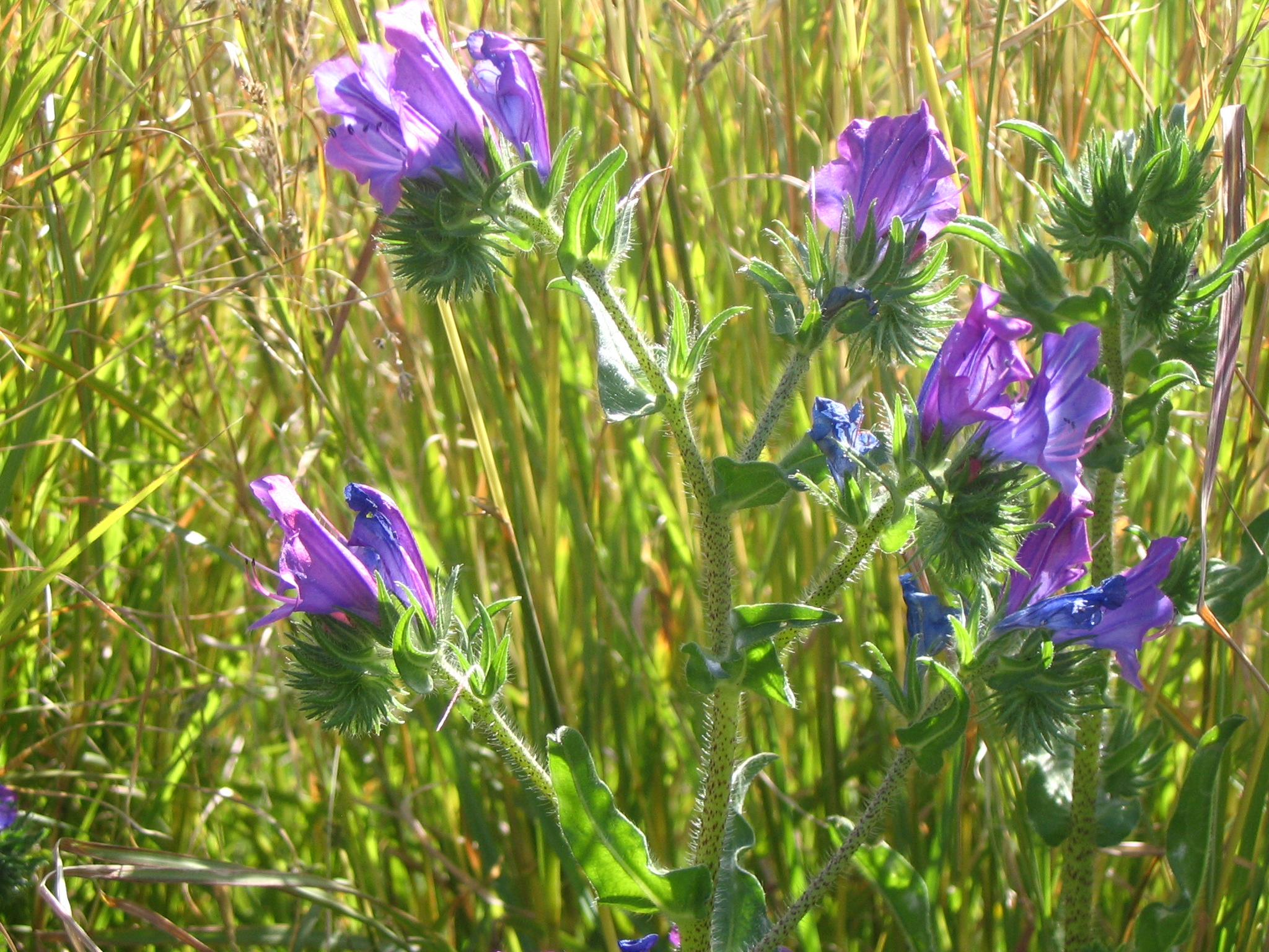 Echium plantagineum